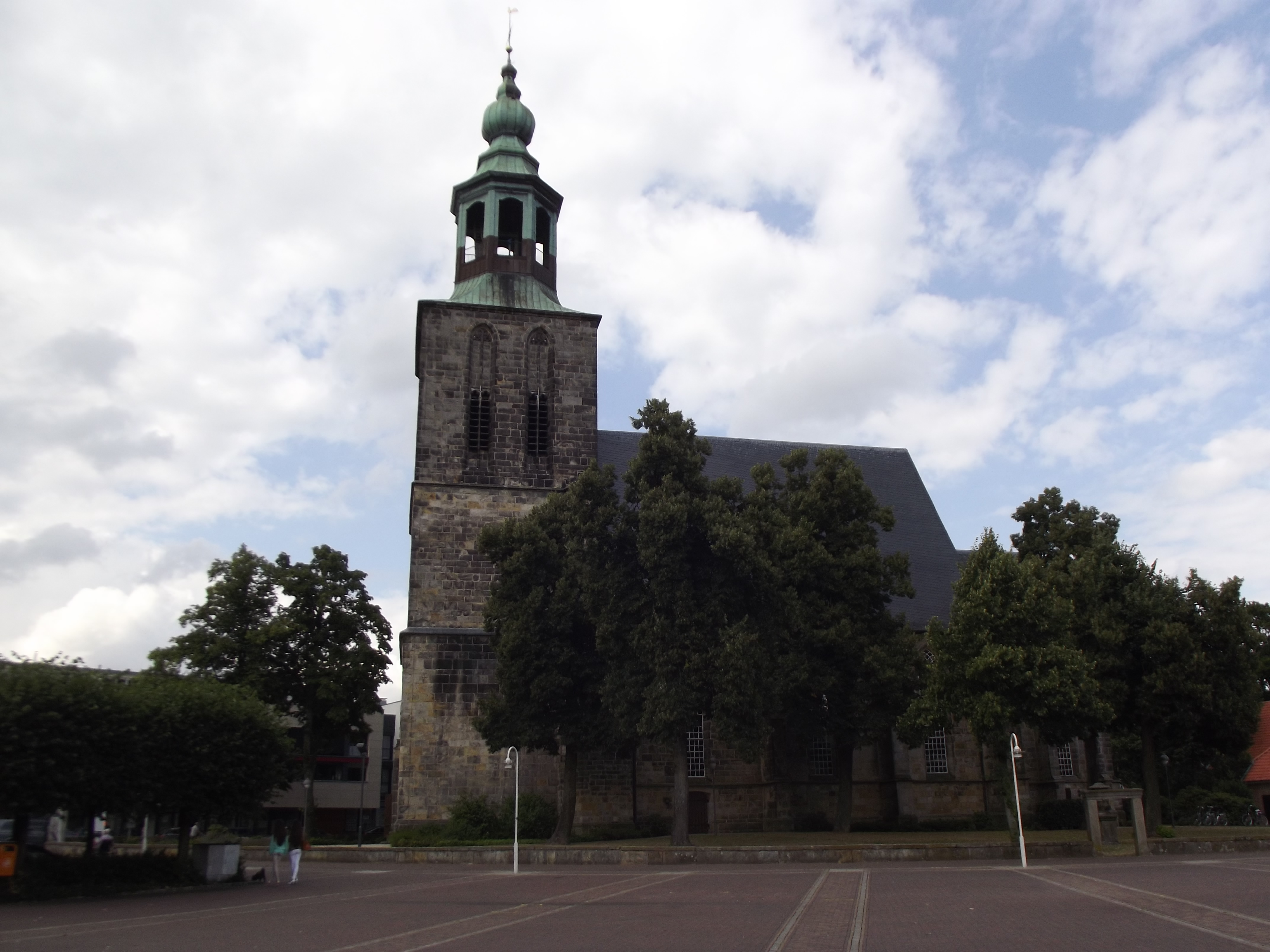 Church at the market square Nordhorn